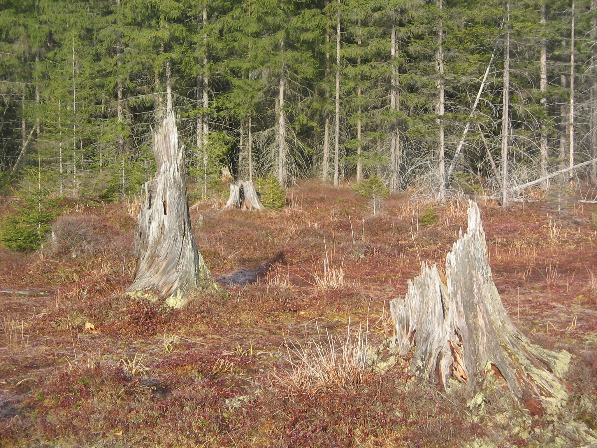 Stumps left from logging in the late 19th and early 20th centuries, just north of Reactor Road Gate in Quehanna Wild Area, Clearfield County, Pennsylvania, USA